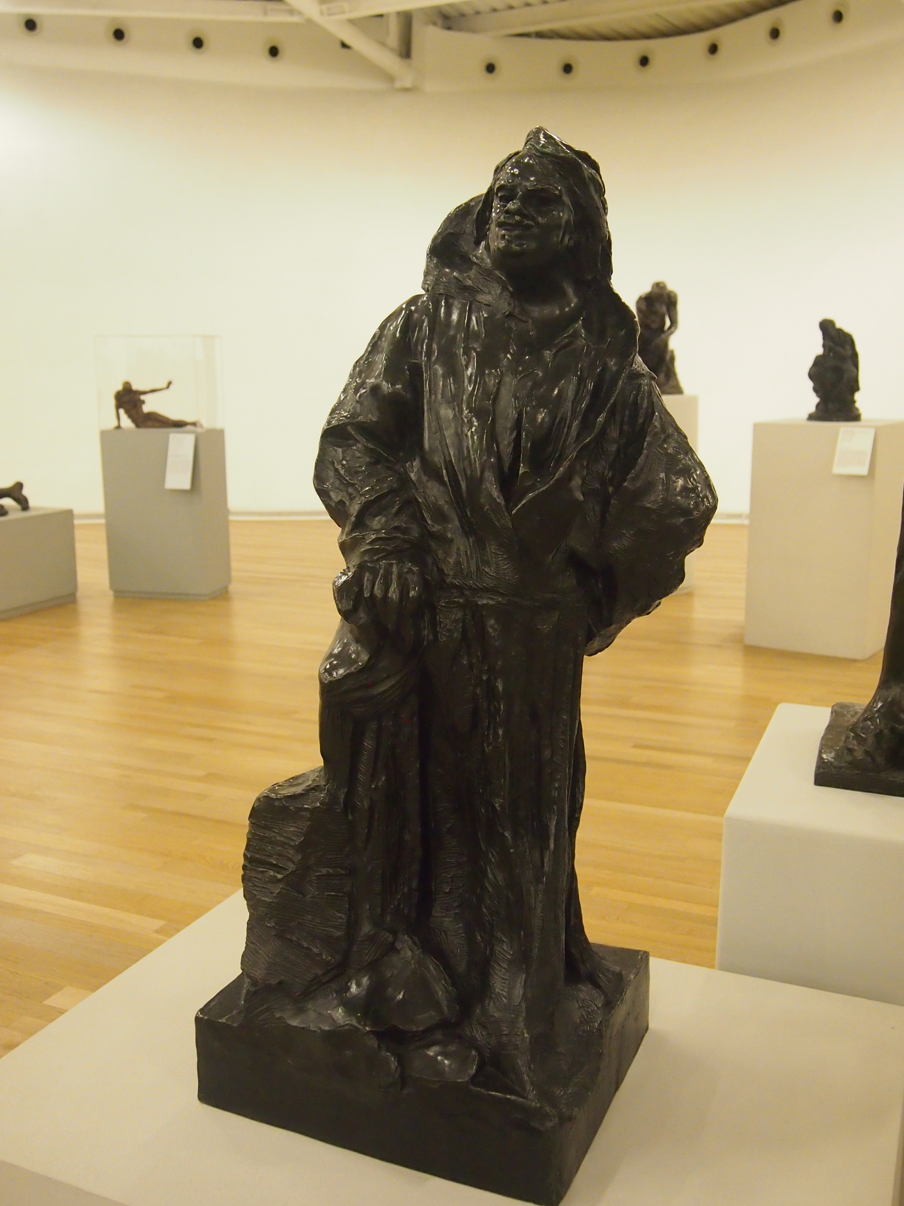 auguste rodin 1892 bronze with coddee patina and green